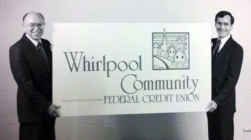 WEFCU changes name to Whirlpool Community Federal Credit Union